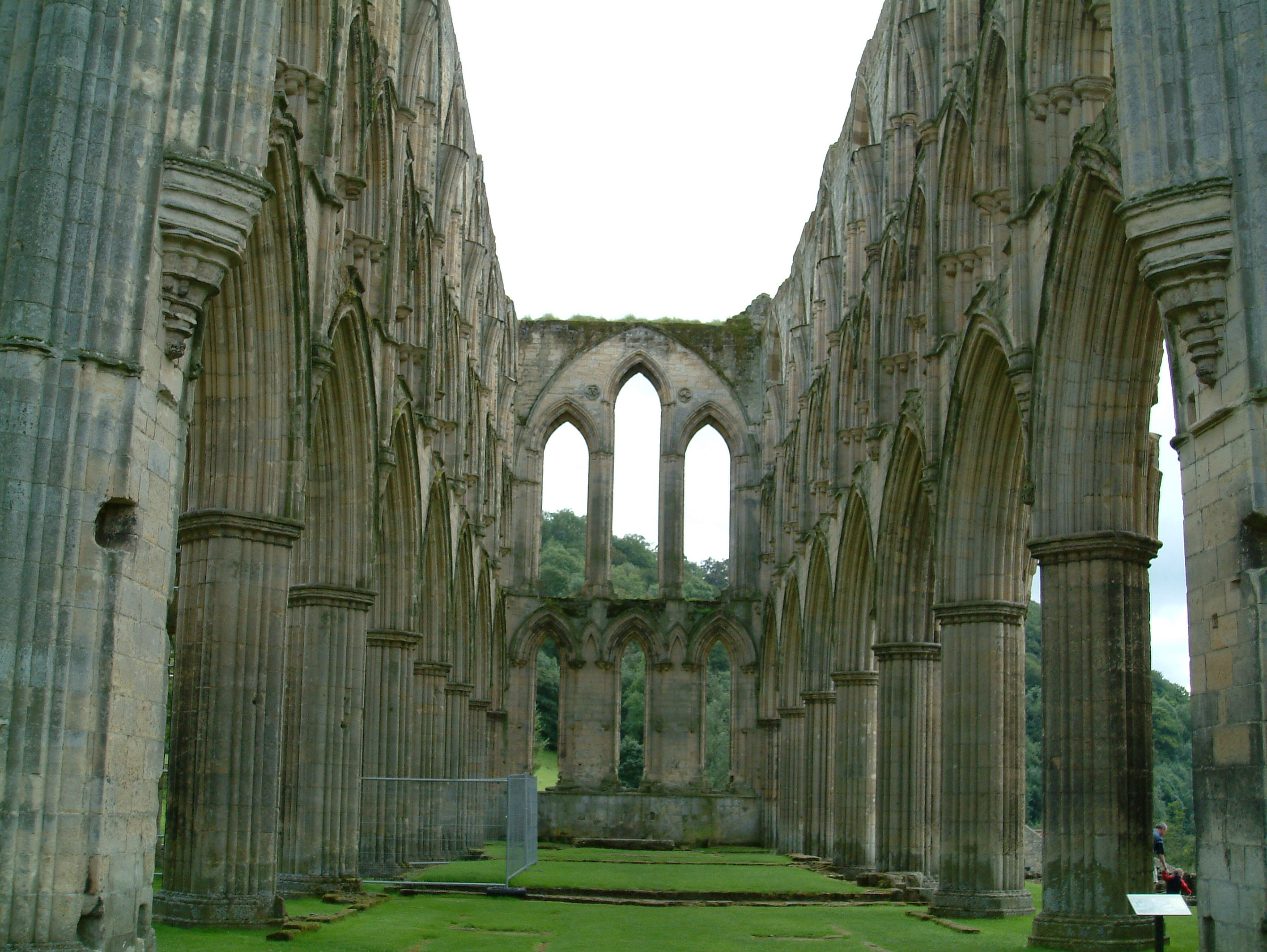 Ruins of the Abbey Church, Rievaulx Abbey, Laskill, North Yorkshire. Taken by Flaxton